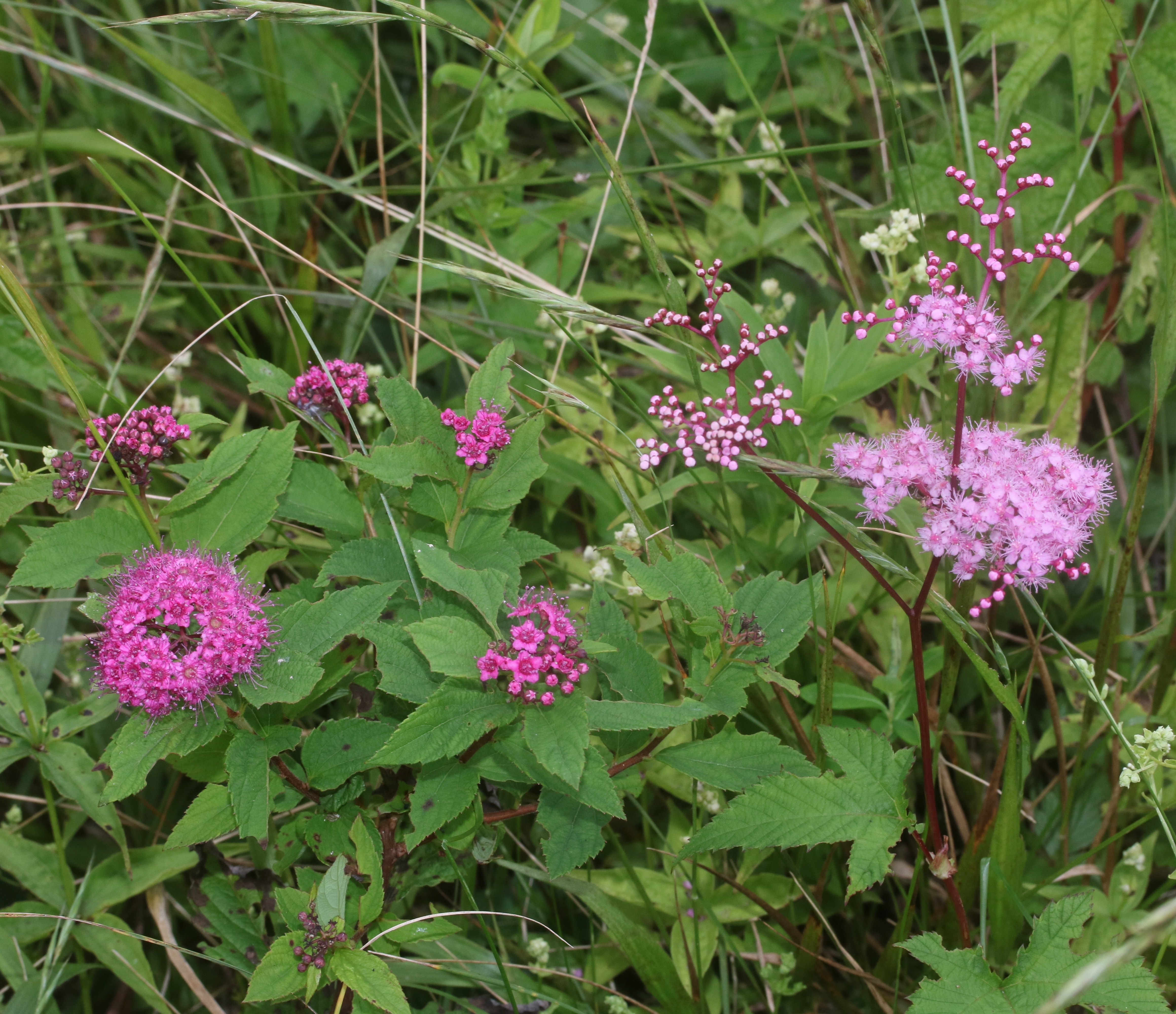 Spiraea japonica (left) and Filipendula multijuga (right) in Mount Ibuki, Maibara, Shiga Prefecture, Japan.